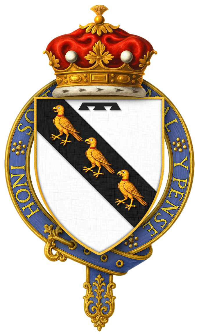 Garter-encircled shield of arms of George Curzon, 1st Marquess Curzon of Kedleston, KG, as displayed on his Order of the Garter stall plate in St. George's Chapel.